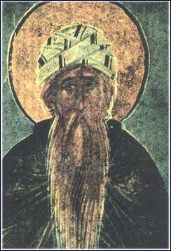 Isaac the Syrian